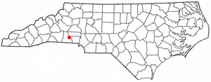 Category:North Carolina Dot Maps